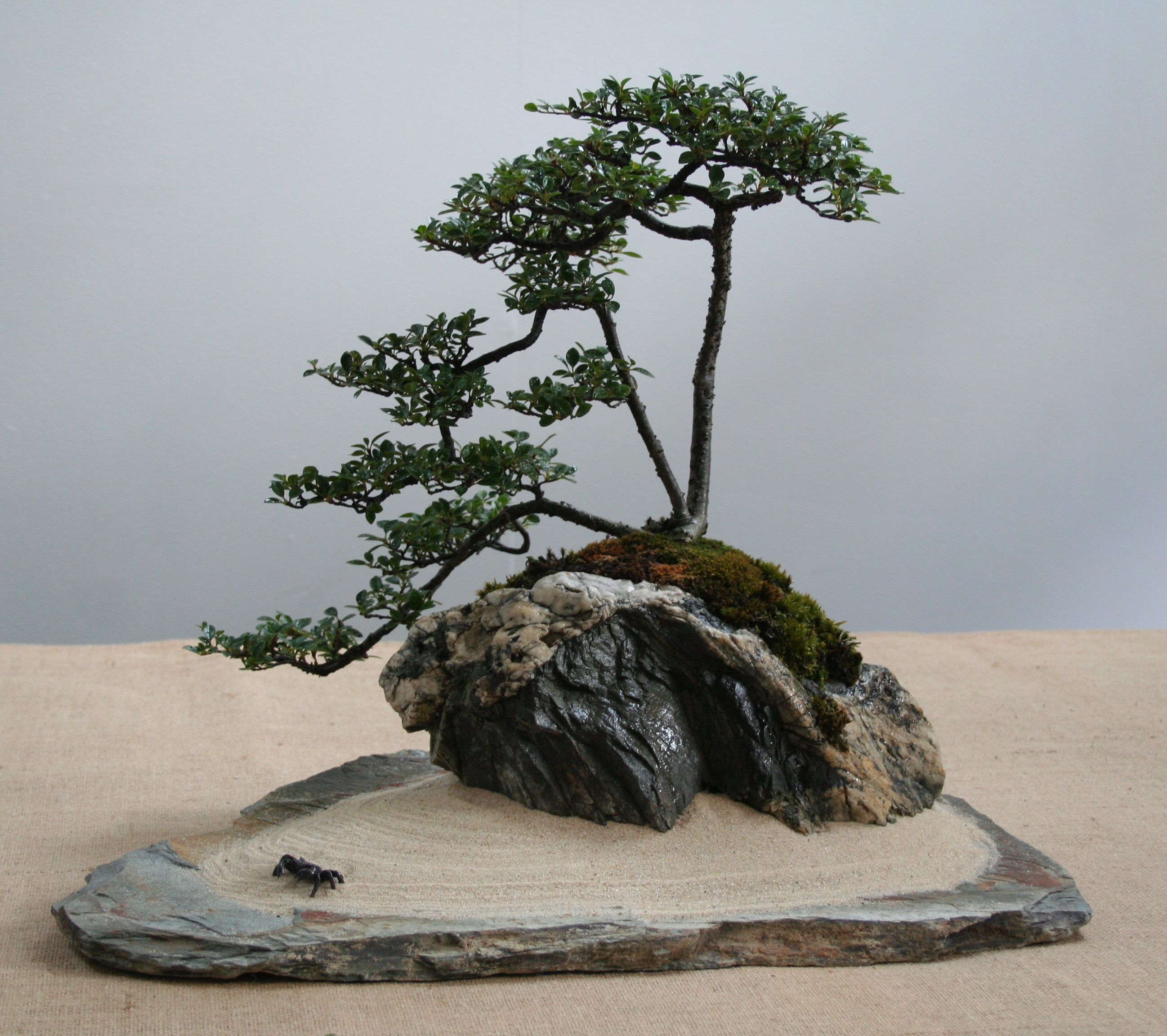 A root-over-rock bonsai cotoneaster, on display at the 2008 Enfield Bonsai Group Summer Show. The same tree the previous Autumn: Image:Cotoneaster bonsai at Capel Manor Autumn Show 2007.jpg